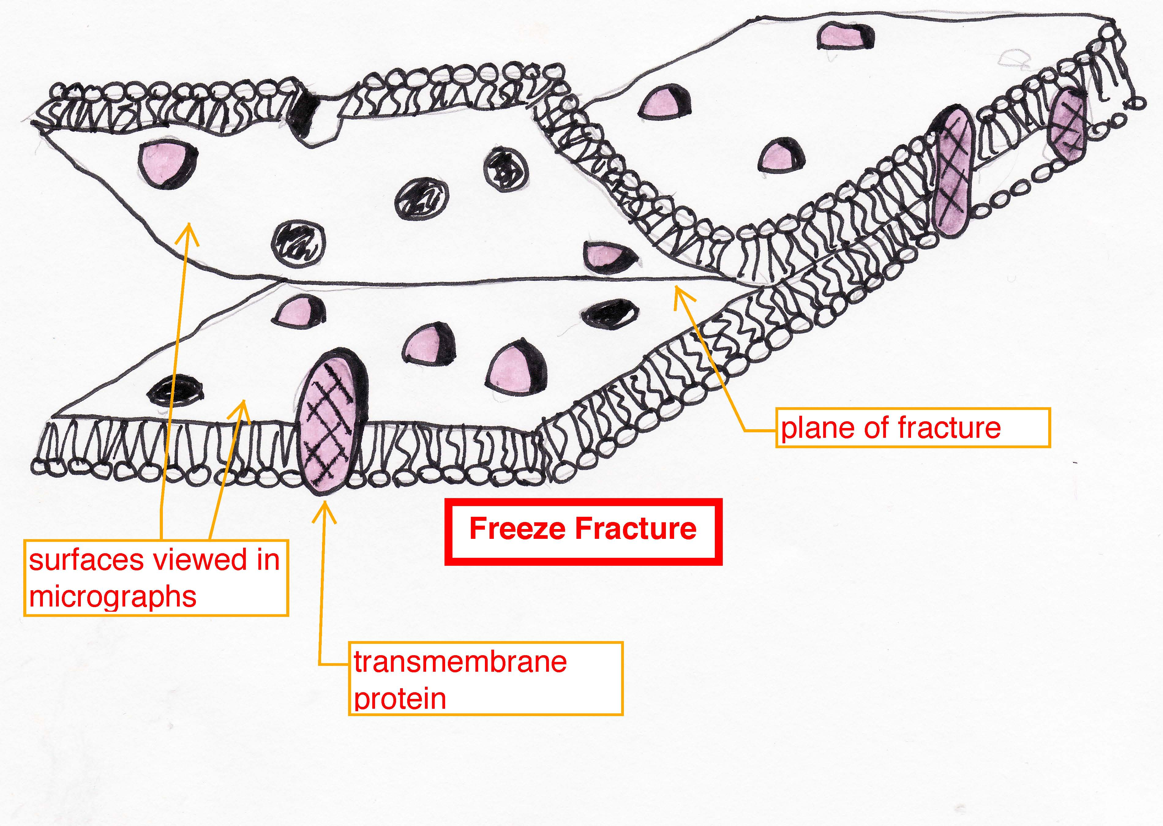 membrane freeze fracture diagram - FreezeFracture_final.jpg